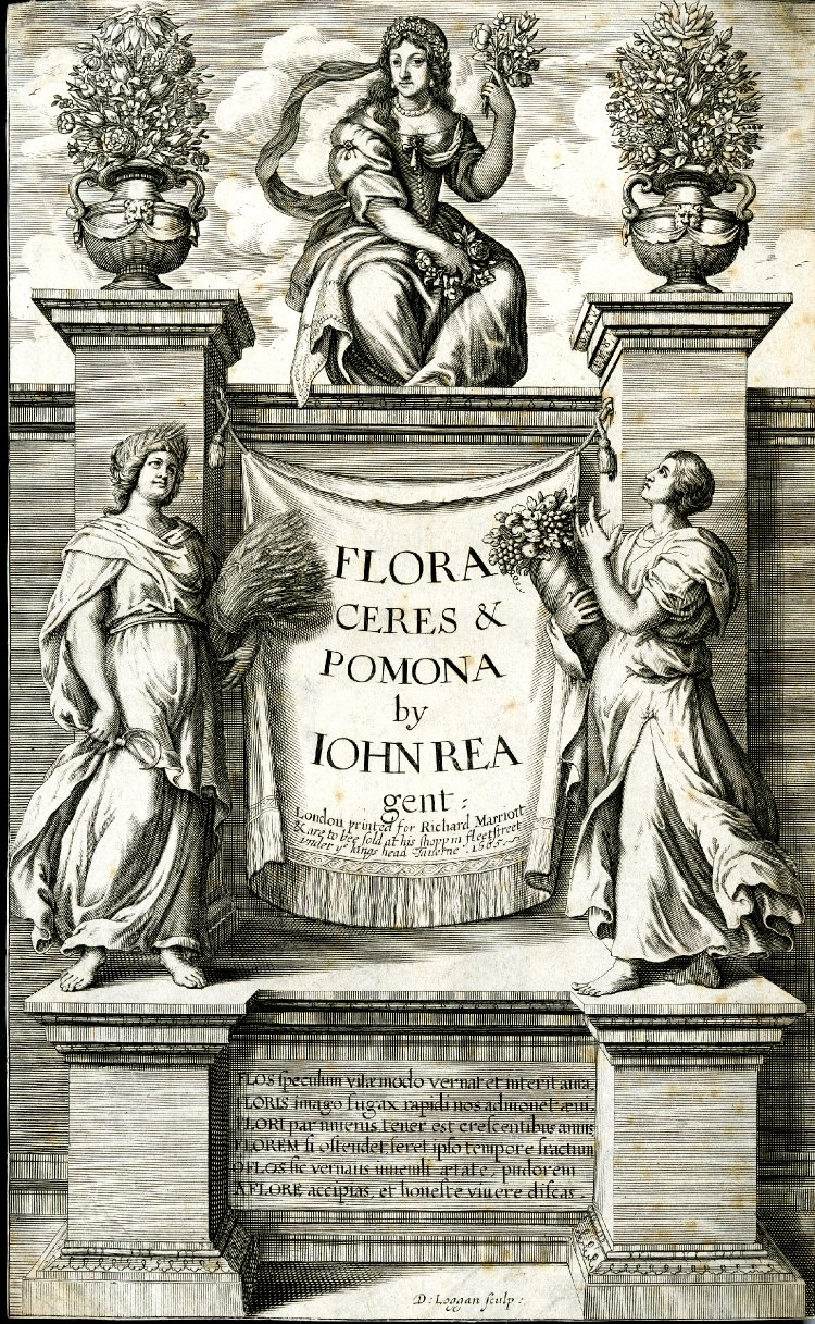 Title page for Flora, seu de Florum Cultura, or a complete Florilege (1665) by John Rea. Second of two title pages to the book, Flora, Ceres, and Pomona, in III. Books, published by Richard Marriott, London.